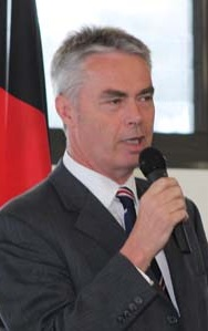 Alan Griffin MP, Federal Member for Bruce, at the opening of new facilities at Mount View PS in Glen Waverley